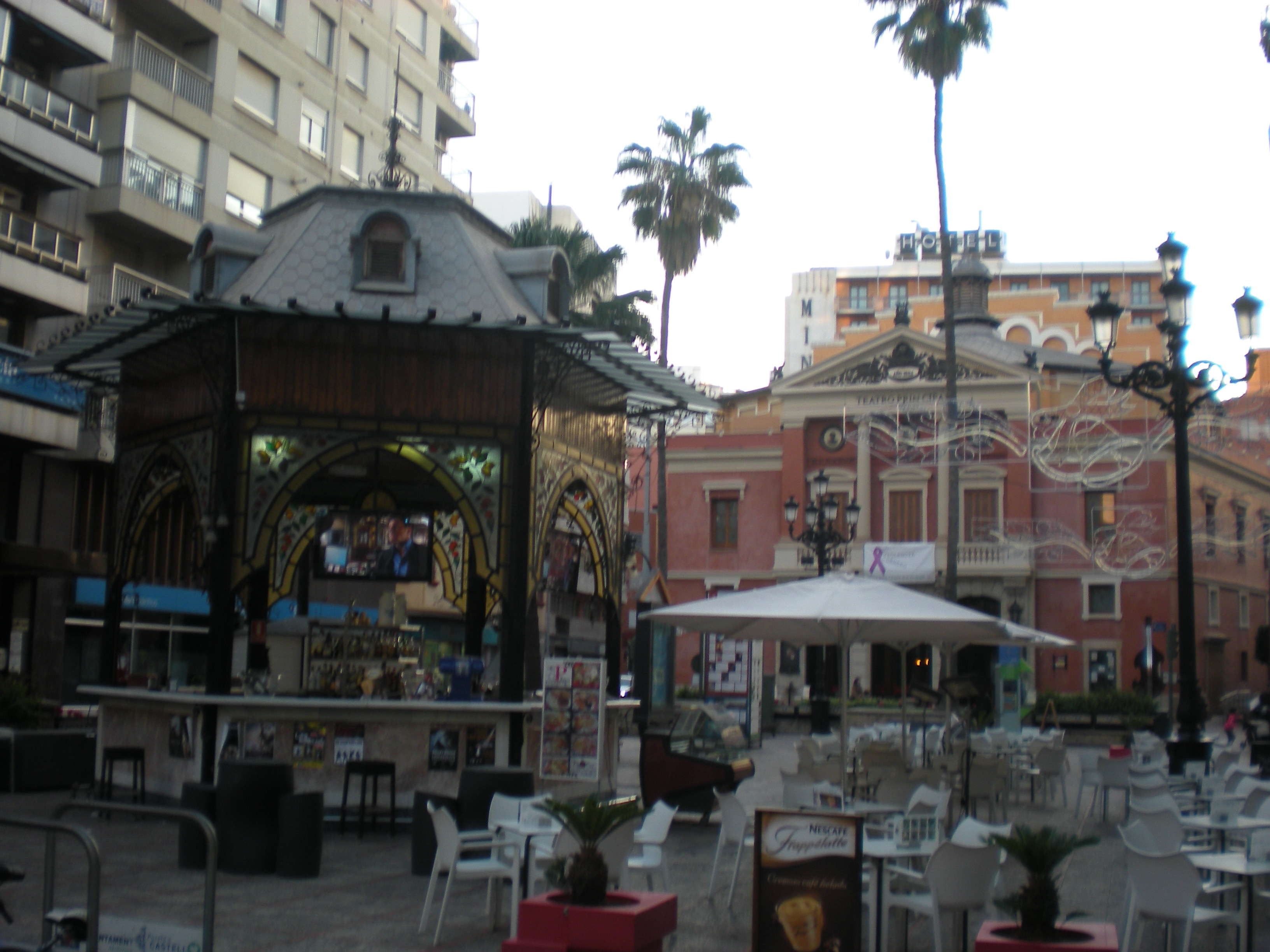 View of Paz Square of Castellón (Spain) with the modernist kiosk and the "Teatro Principal".